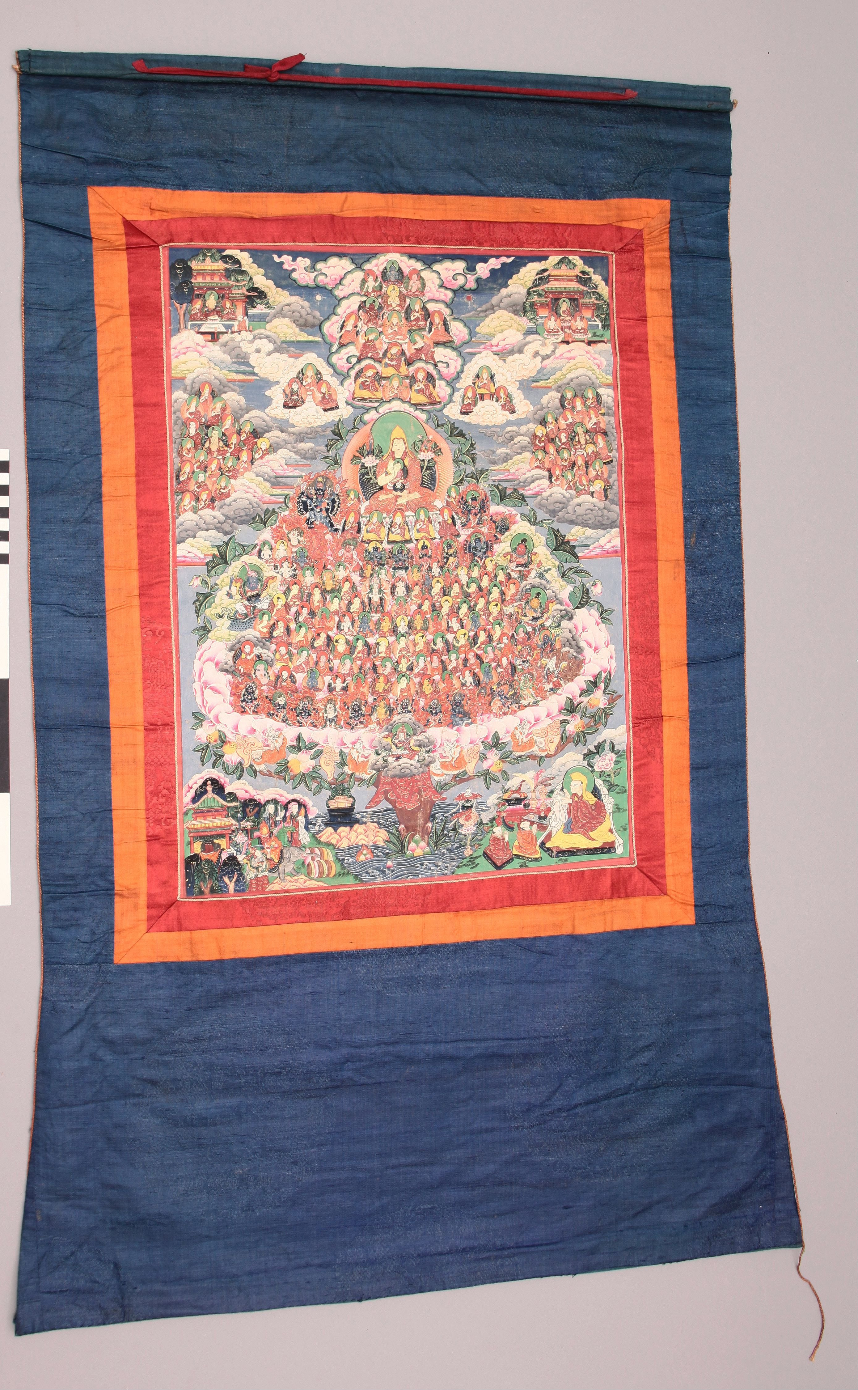 Thanka. National Museums of World Culture, Göteborg.